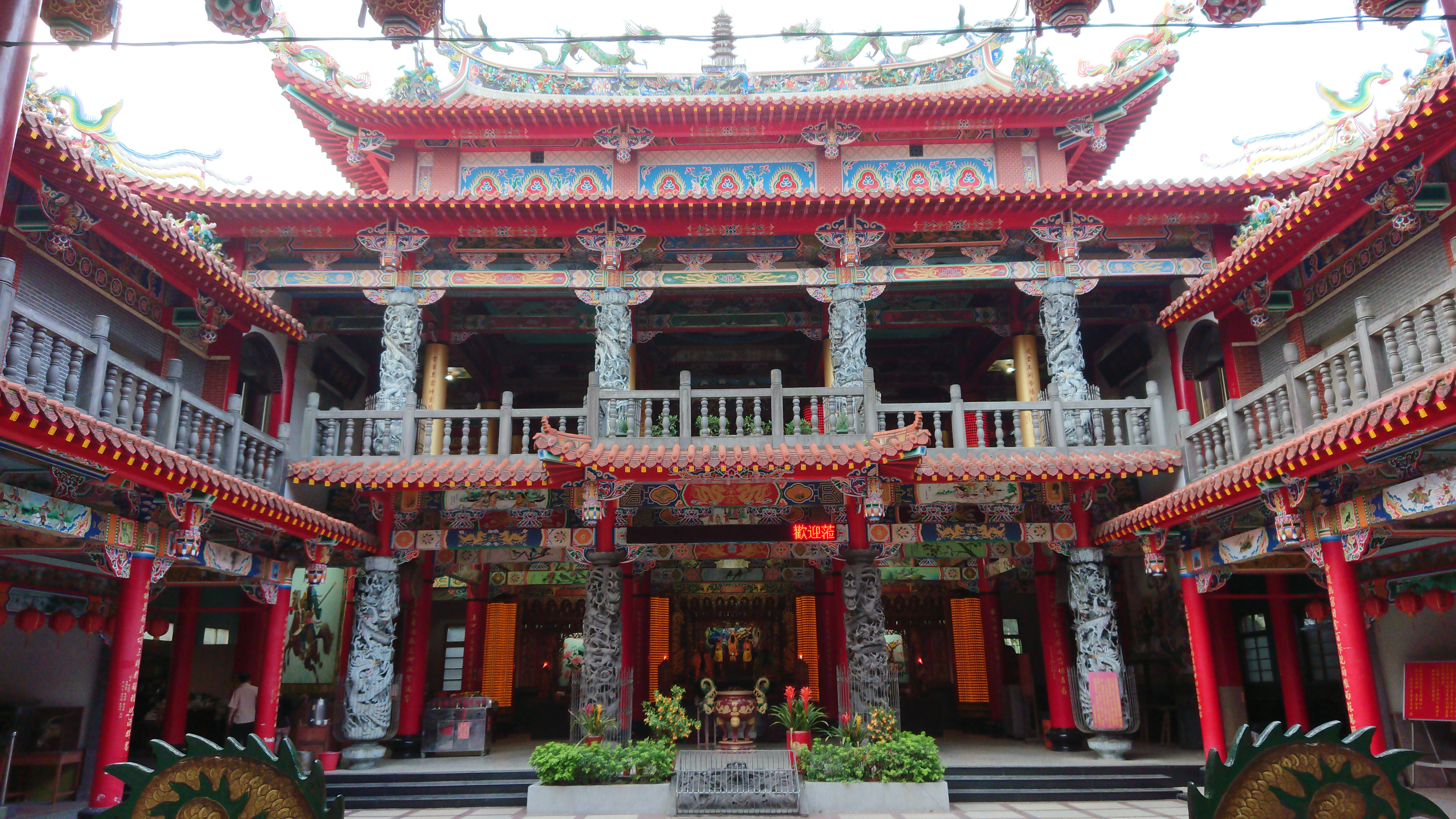 beautifull building